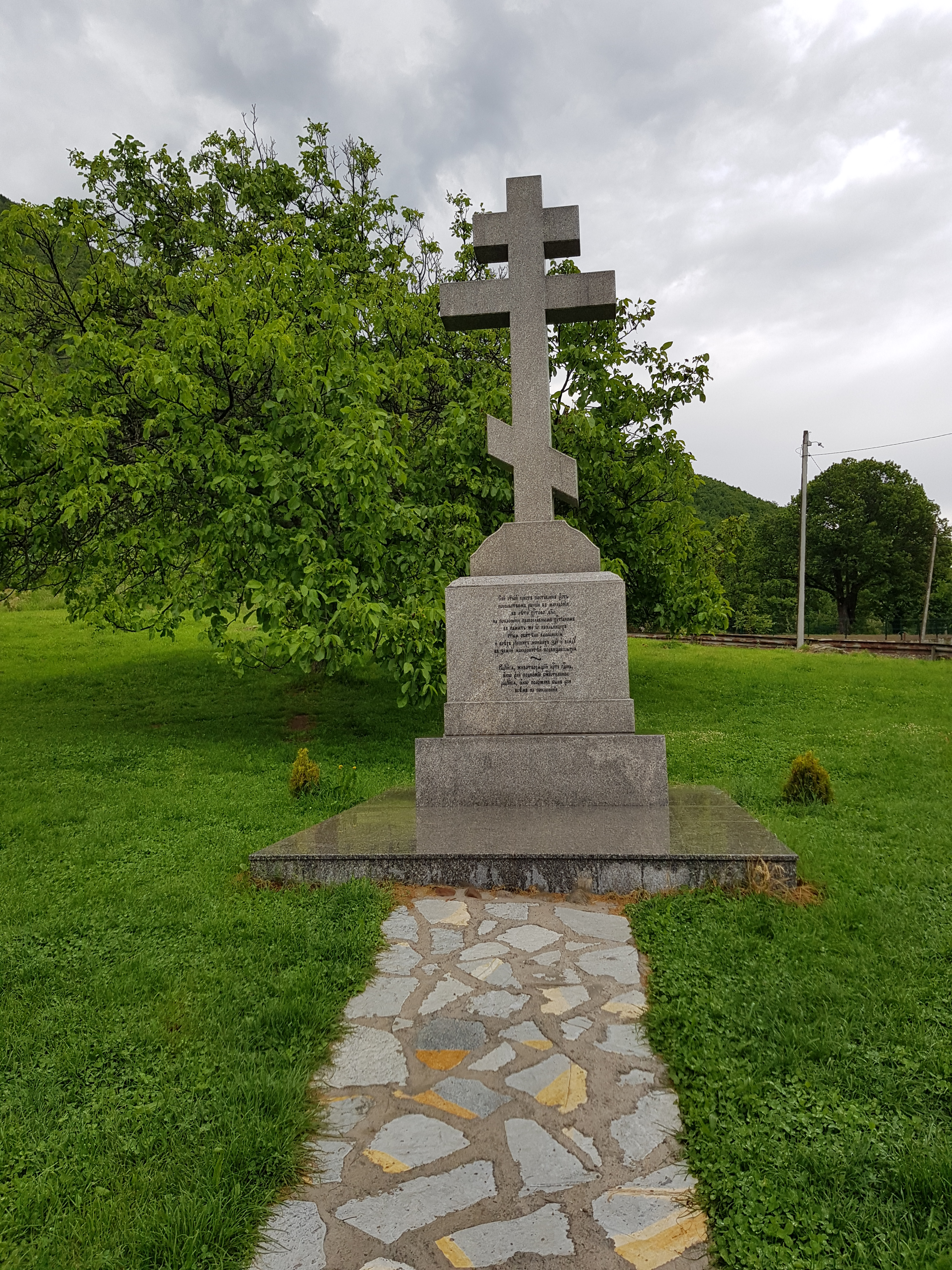 Russian Cross in Lešok Monastery, Macedonia